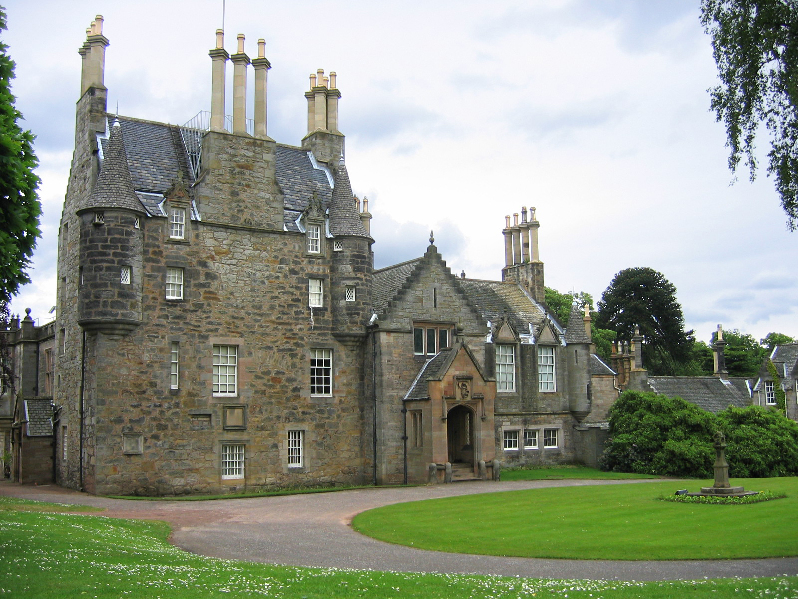 Lauriston Castle, Edinburgh. South facade.